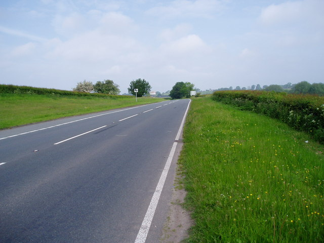 The A525, between Whitchurch and Bangor on Dee. Looking west north west along the A525